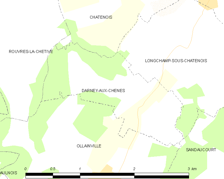 Map of French municipality Darney-aux-Chênes